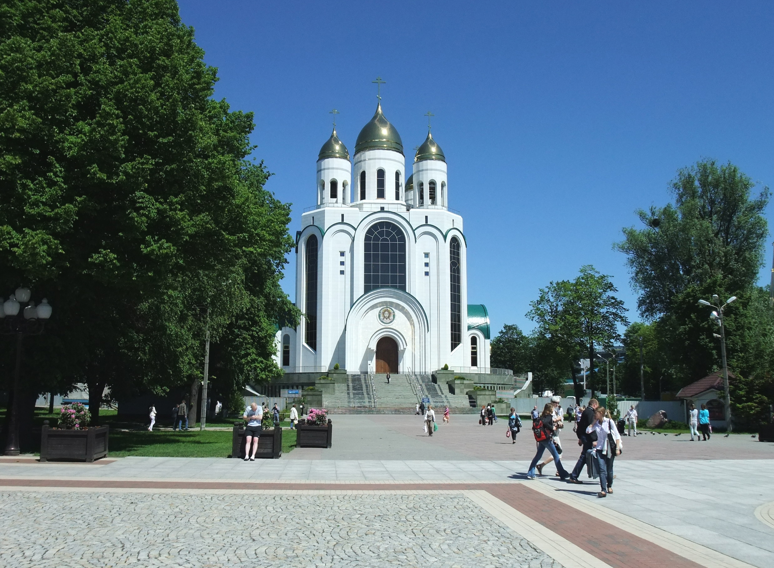 Cathedral of Christ the Saviour in Kaliningrad, Russia